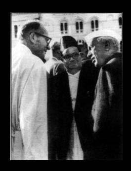 Fr. Marshall D. Moran SJ, Jesuit father and founder of SXS Patna with Jawahar Lal Nehru, the first prime minister of India during his visit to Patna.